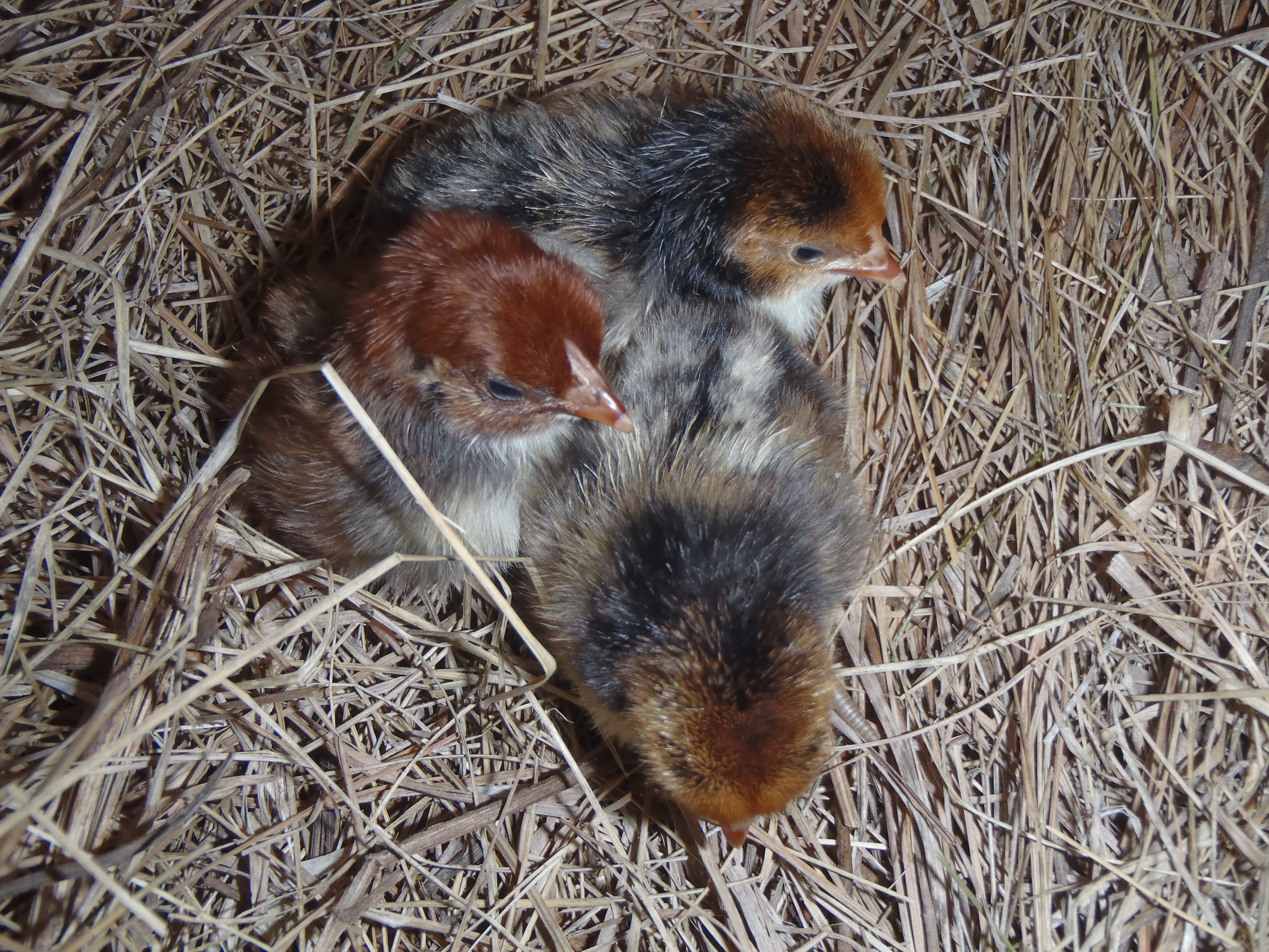 Citron and Spangled Hamburg bantam chicks.Taken by Ryan Zierke